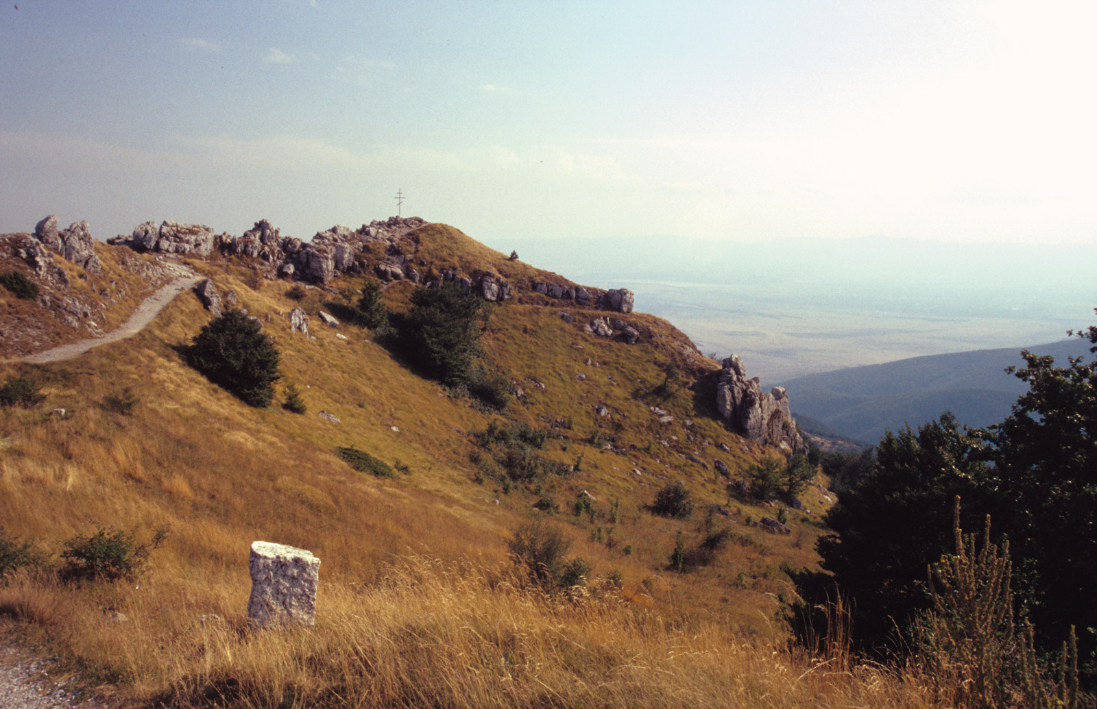 View from Shipka pass, Bulgaria